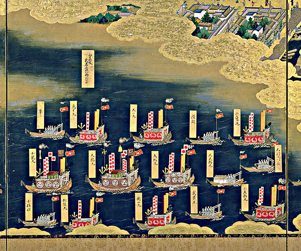 View of Edo, left screen. pair of six-panel folding screens (17th century. 1642-1644 according to Hideo Kuroda). BOTTOM OF FIFTH PANEL, Left Screen. Edo Harbor, Mukai Shogen (Fleet Admiral), Procession of warship fleet for shogun's inspection.